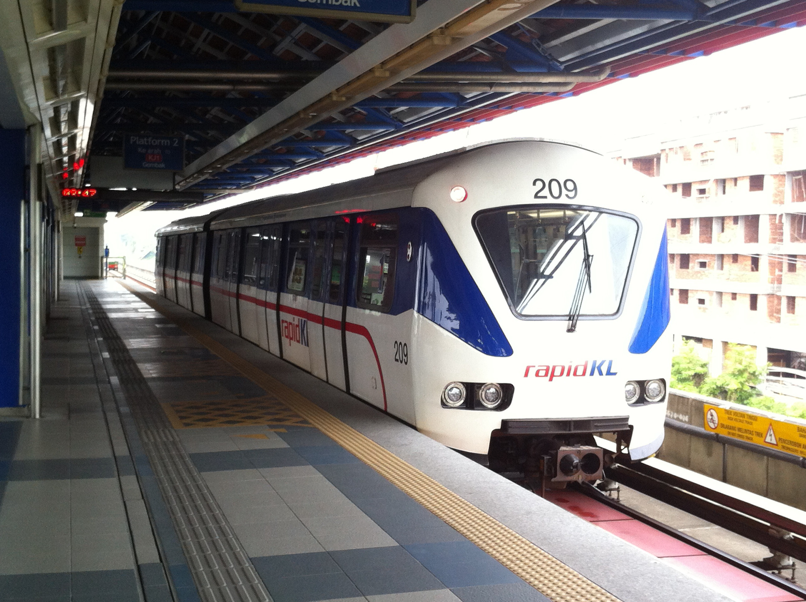 A refurbished 2-car ART Mark II train at Kelana Jaya station.